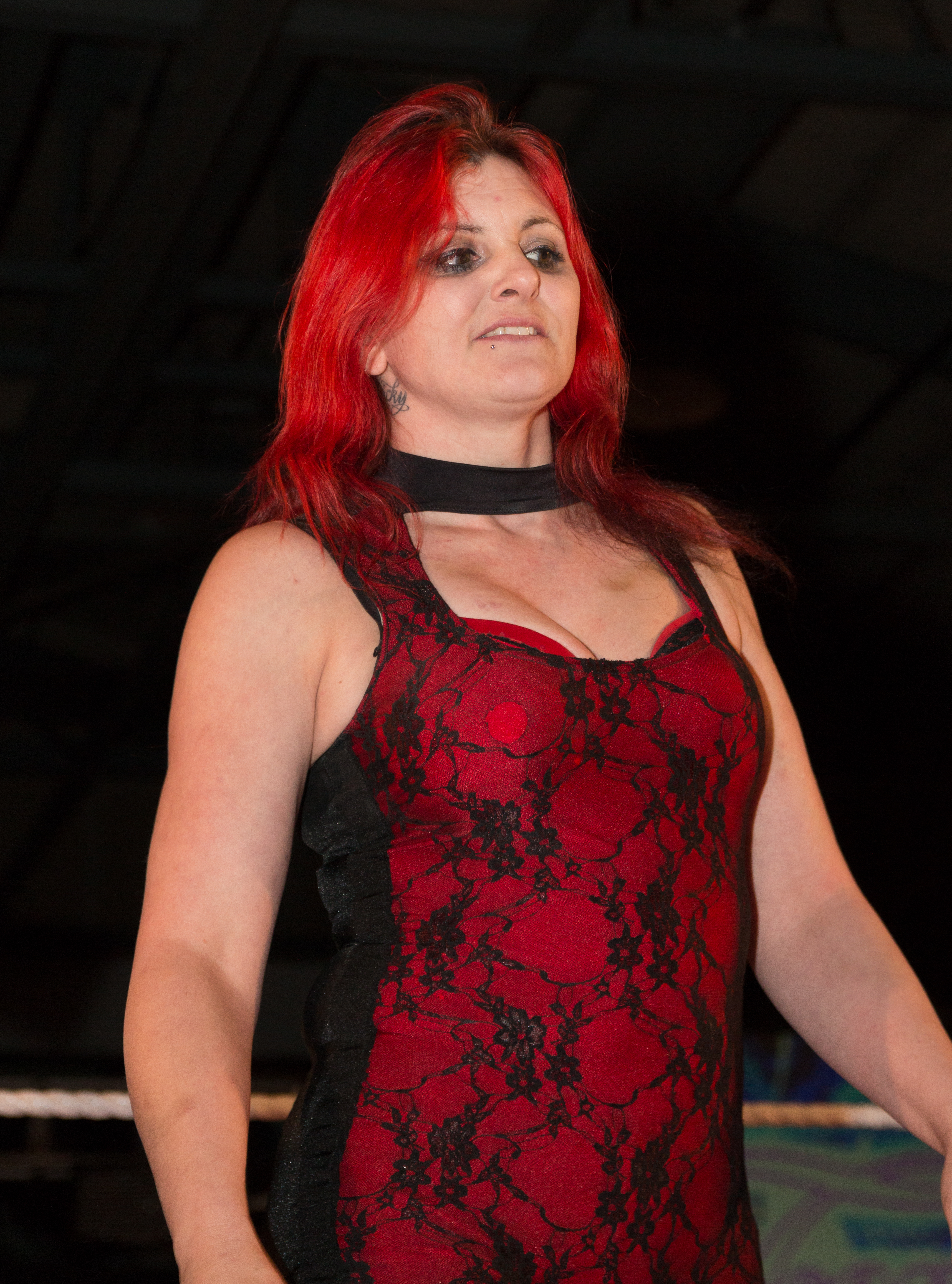 Saraya Knight making her appearance at NCW Femme Fatales XIV in Montreal, QC